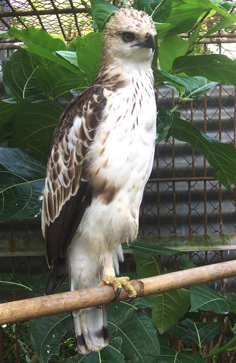 Changeable hawk-eagle Spizaetus cirrhatus. Banten, West Java, Indonesia